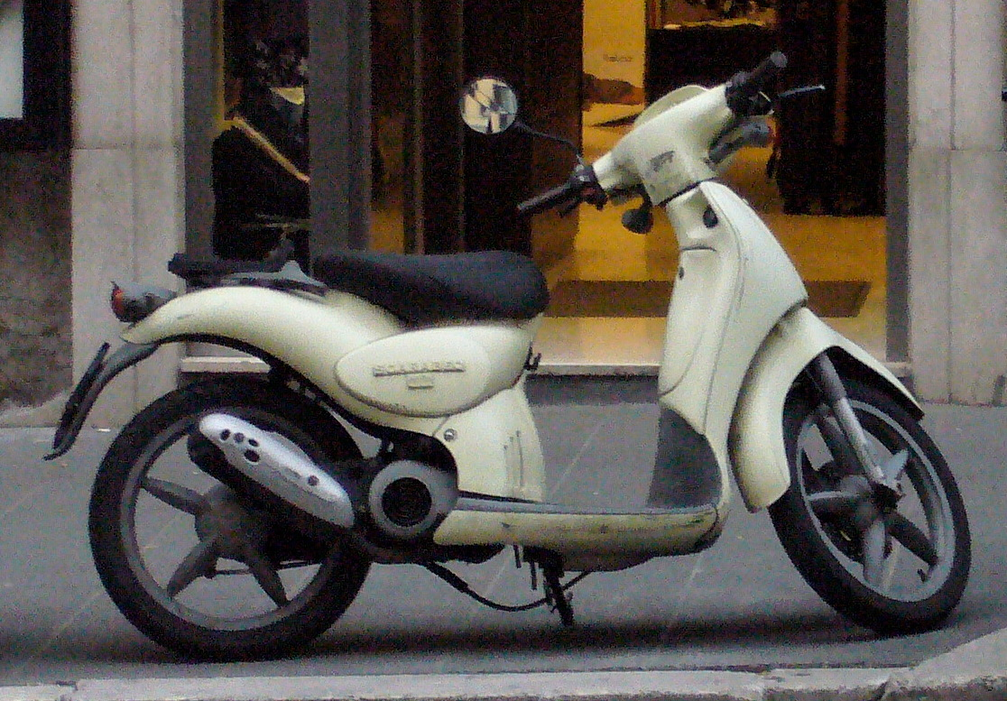 Scooters in Italy Aprilia Scarabeo 50